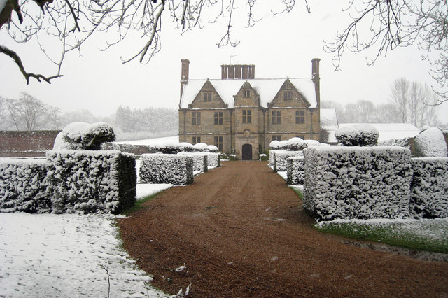 Great Wigsell, Hastings Road, Bodiam, East Sussex